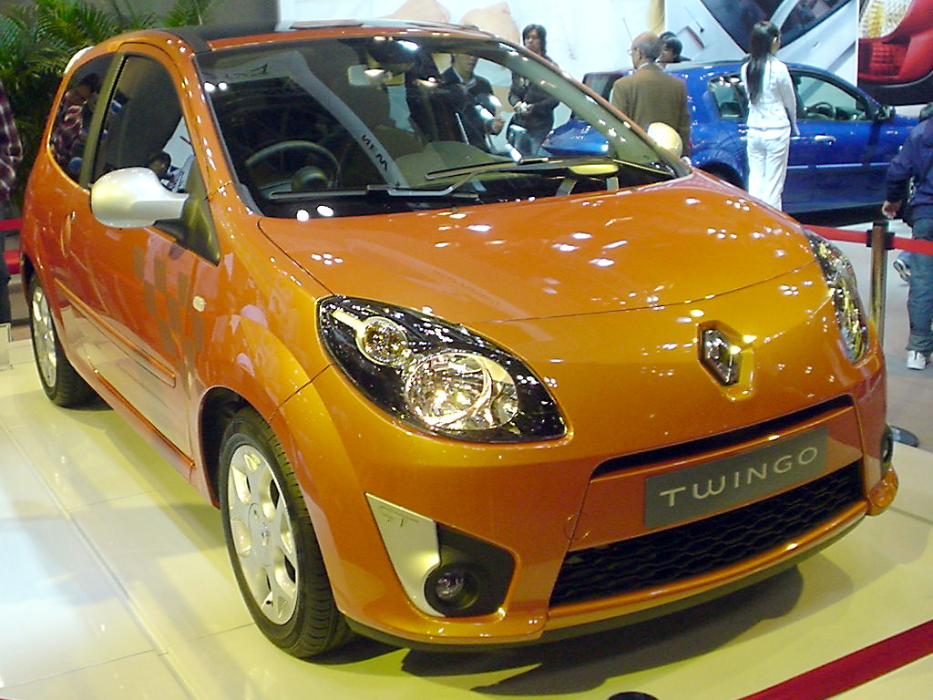 Renault Twingo GT in Tokyo Motorshow 2007